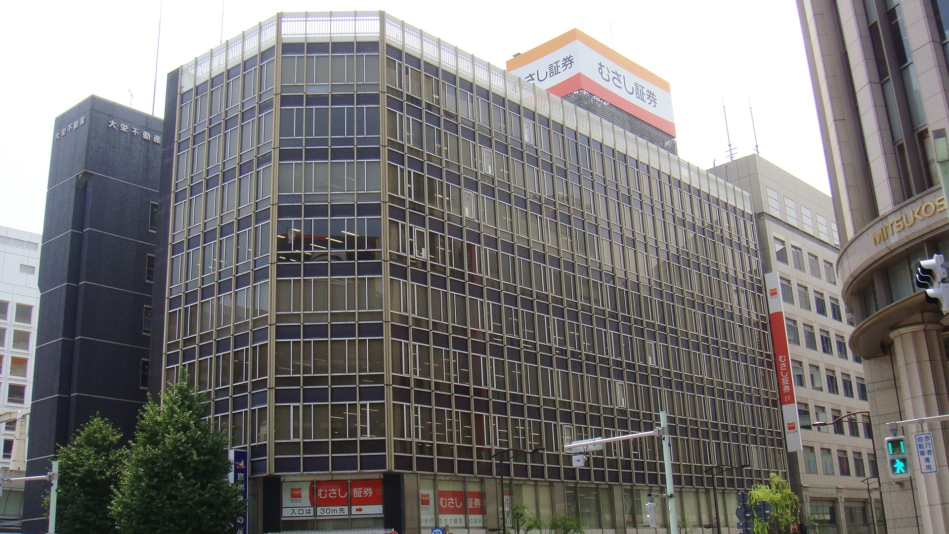 Tokyo Slaes Branch building of Musashi Securities Co.,Ltd in Nihonbashi, Tokyo, Japan